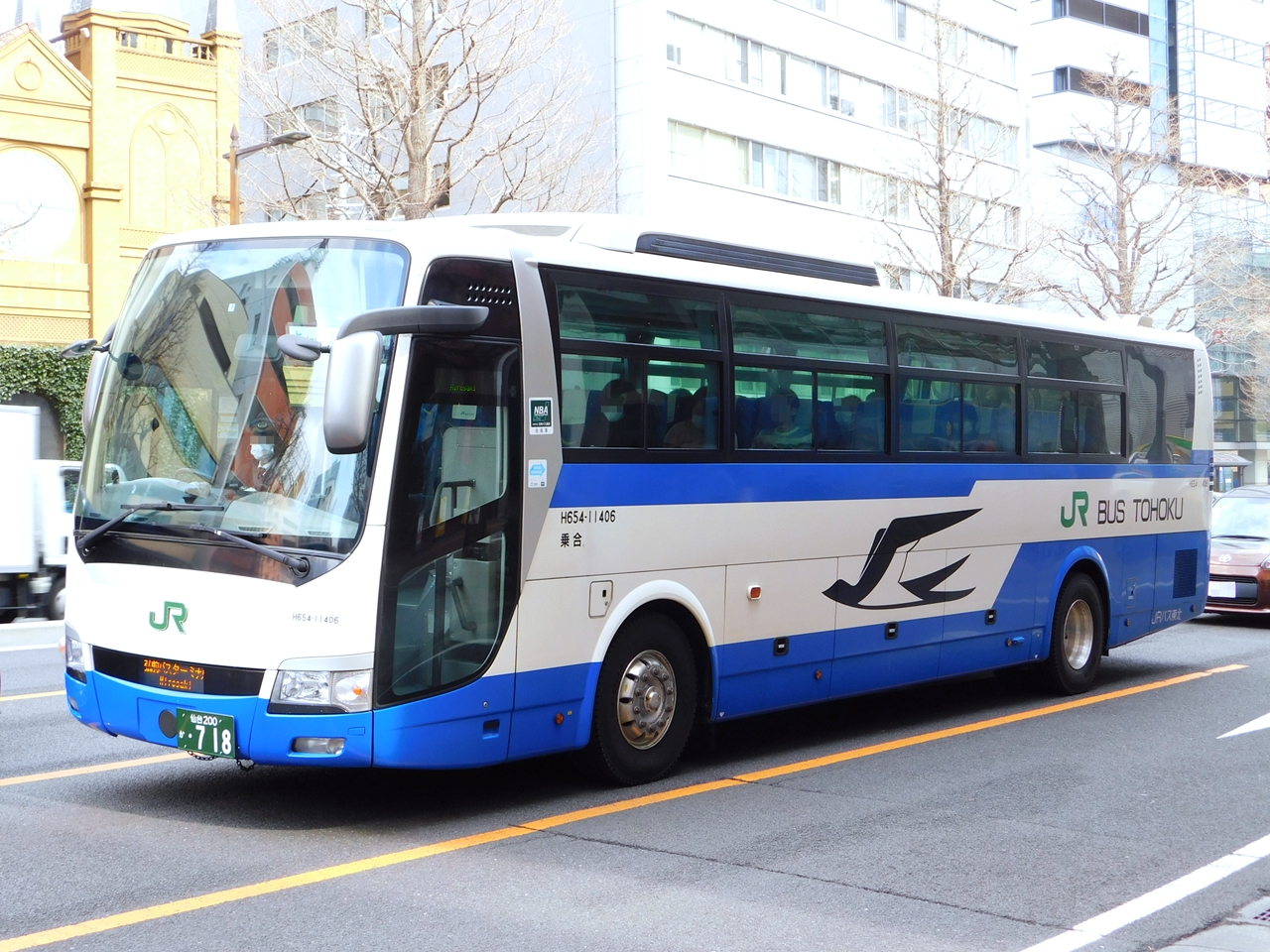 JR Bus Tohoku Mitubishi Fuso Aero Ace (LKG-MS96VP)on highwaybus "Castle-go"(Sendai-Hirosaki)